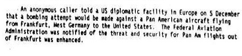 Part of a CIA document about the warnings before the Lockerbie assault. An anonymous caller told a US diplomatic facility in Europe on 5 December that a bombing attempt would be made against a Pan American aircraft flying from Frankfurt, West Germany to the United States. The Federal Aviation Administration was notified of the threat and security for Pan Am flights out of Frankfurt was enhanced.